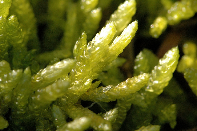 Picture taken in Commanster, Belgian High Ardennes . Species: Pseudoscleropodium purum